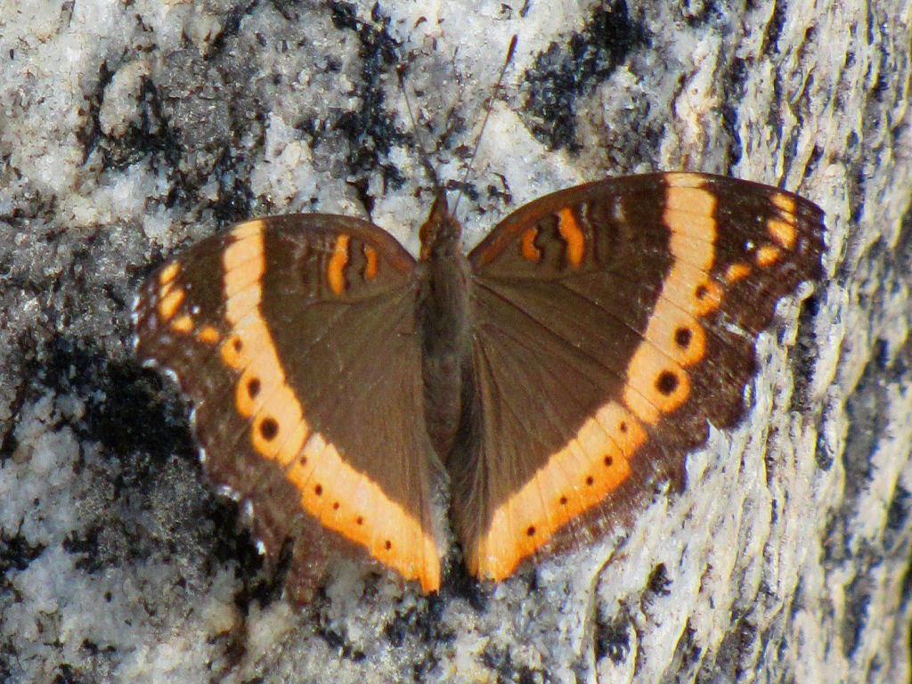 A well-worn wet-season form of the Garden inspector perched on granite at Lake Manyara National Park in northern Tanzania